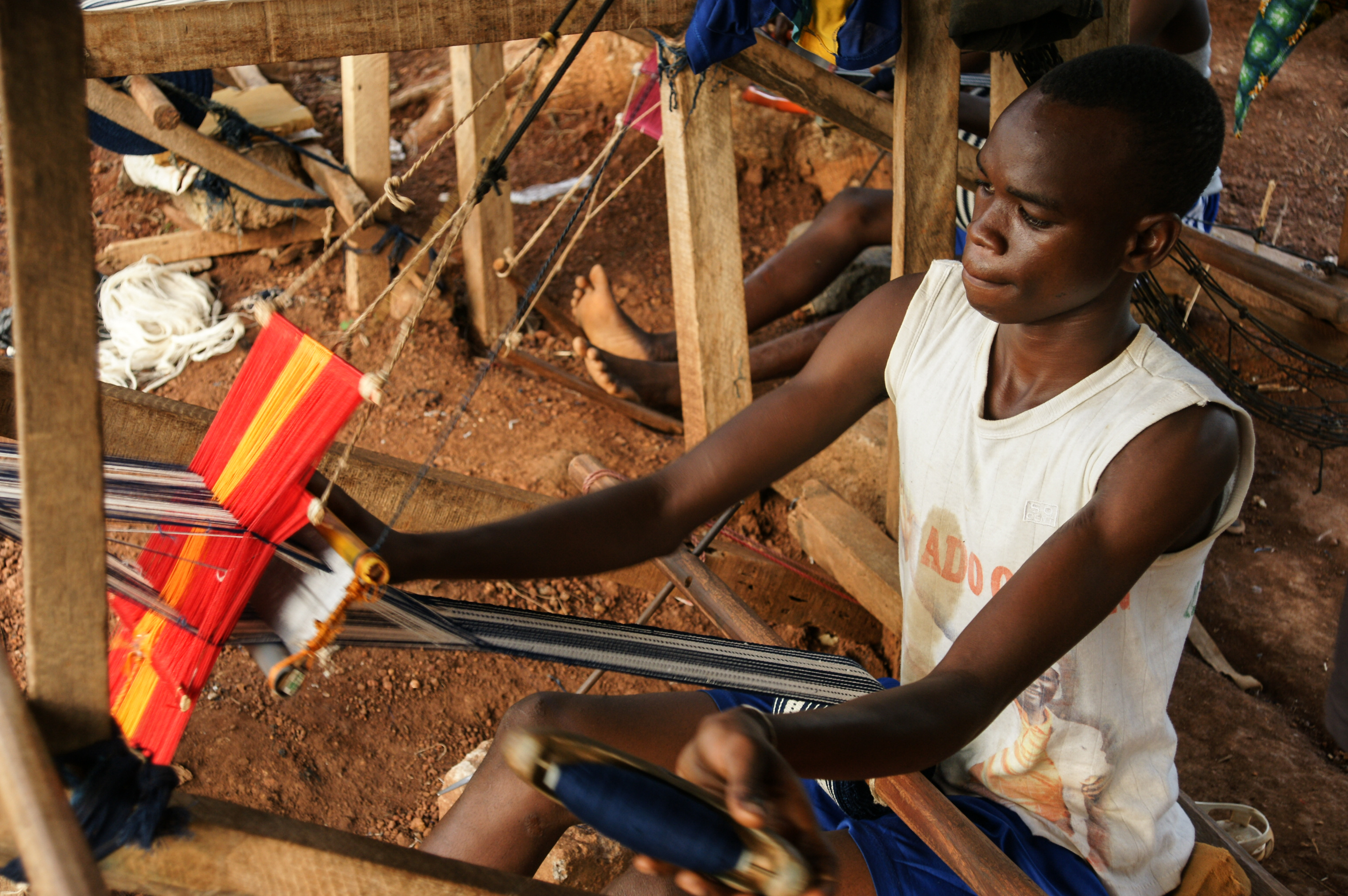 A young man weaving a Baoulé fabric in Man, Ivory Coast This is an image of "African people at work" from Ivory Coast